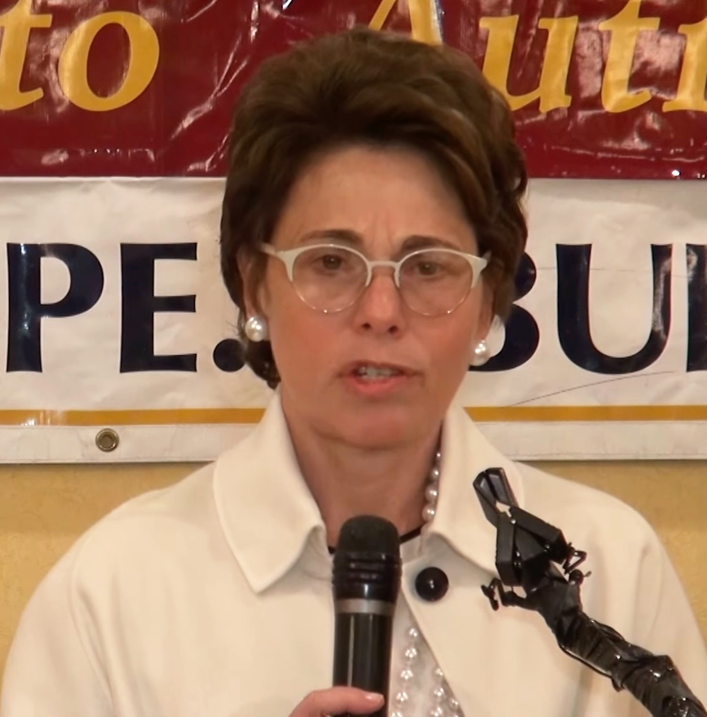 NY Board of Regents Chancellor Dr. Meryl Tisch Honored Dr. Meryl Tisch, Chancellor of the New York State Board of Regents, spoke passionately to members of the Jewish community at the annual Shema Kolainu legislative breakfast July 22, 2015 at the Renaissance Ballroom in Borough Park, Tisch also shared some personal moments of her life, describing how her elderly father and her husband businessman James Tisch CEO of Loews Corporation daven together every morning.